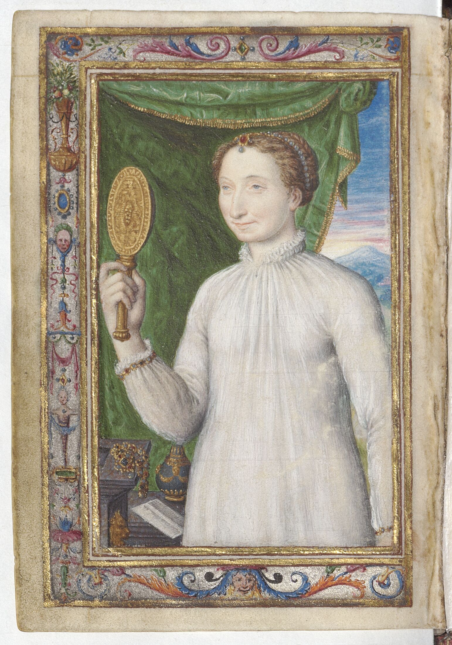 Marguerite de Navarre from the Book of Hours of Catherine de' Medici